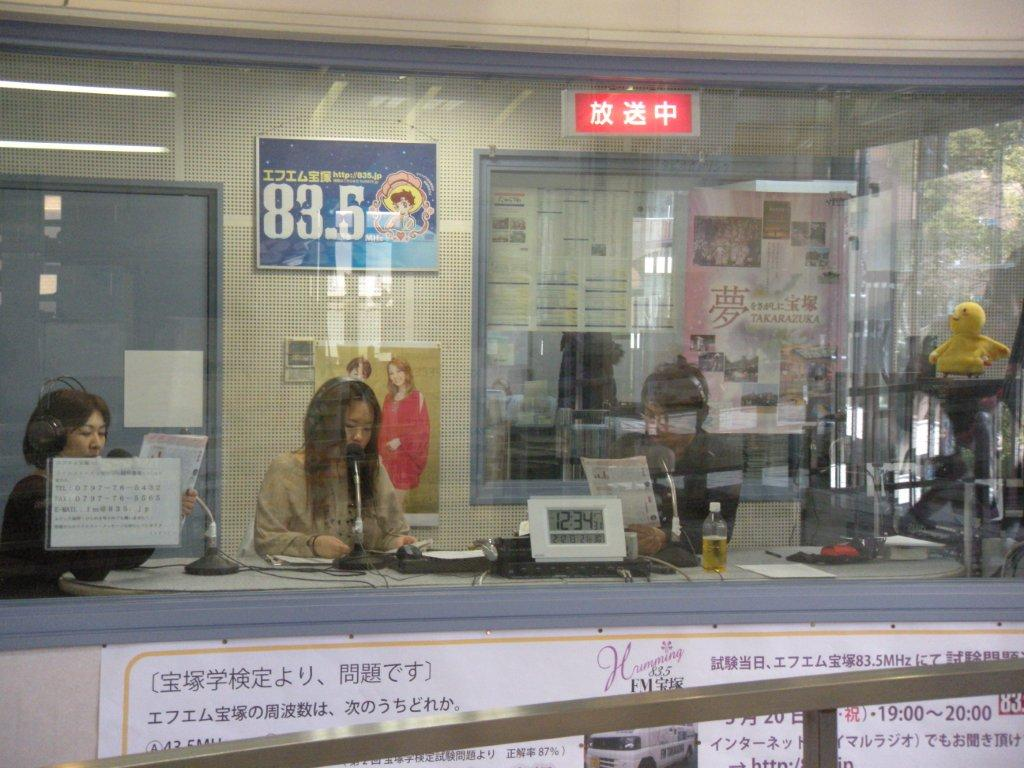 FM-Takarazuka open studio